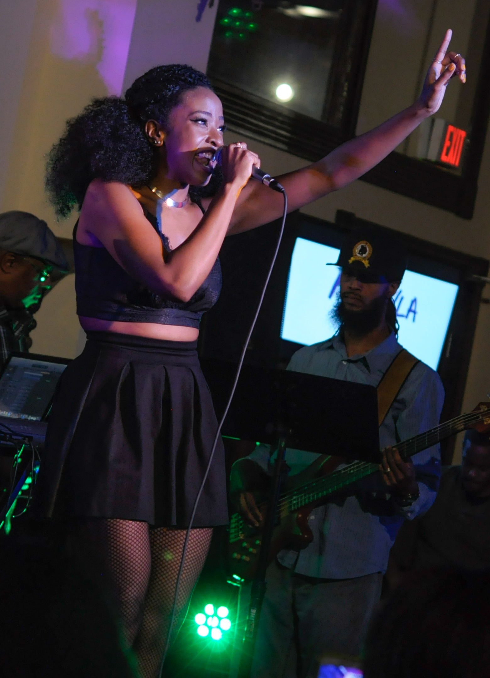 Anhayla performing at Hippodrome in Richmond, VA